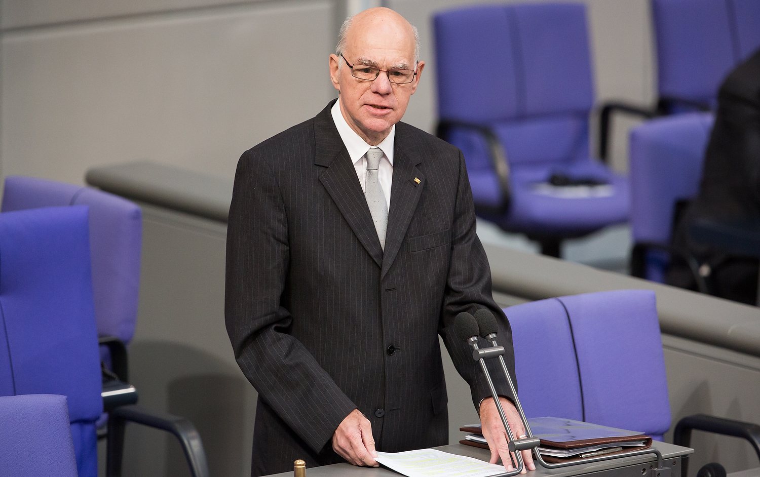 Picture taken during Wikipedia Bundestag project 2014. Norbert Lammert.